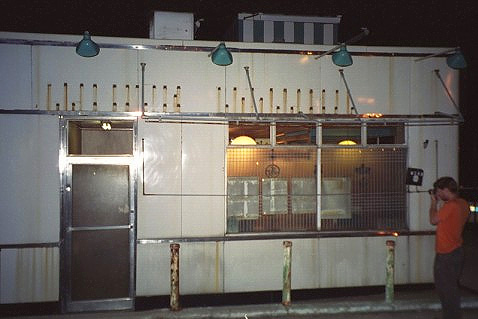 A former White Tower Diner that was used as a Korean Street Food Restaurant in Upper Darby Township, Pennsylvania, USA